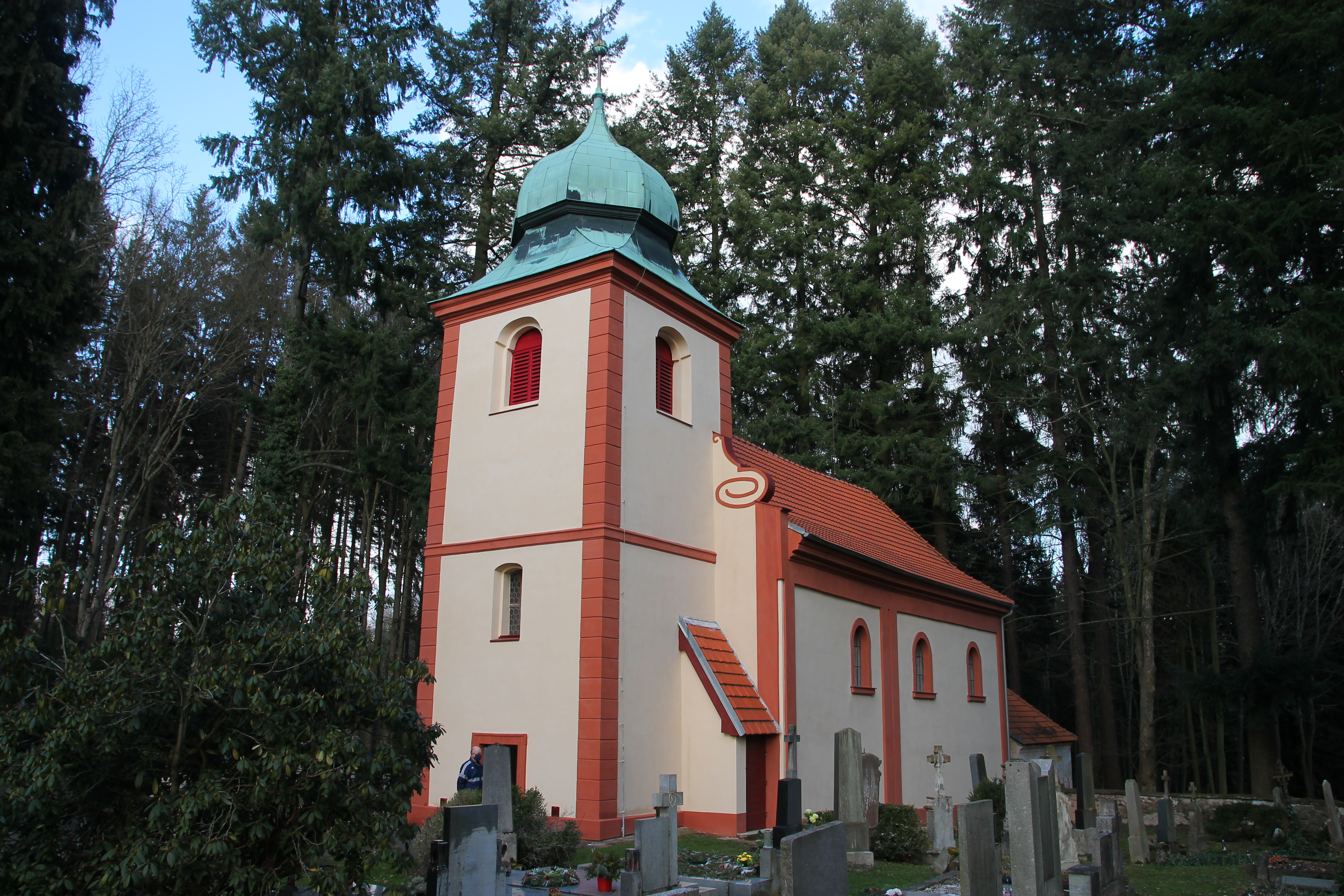 Aldašín